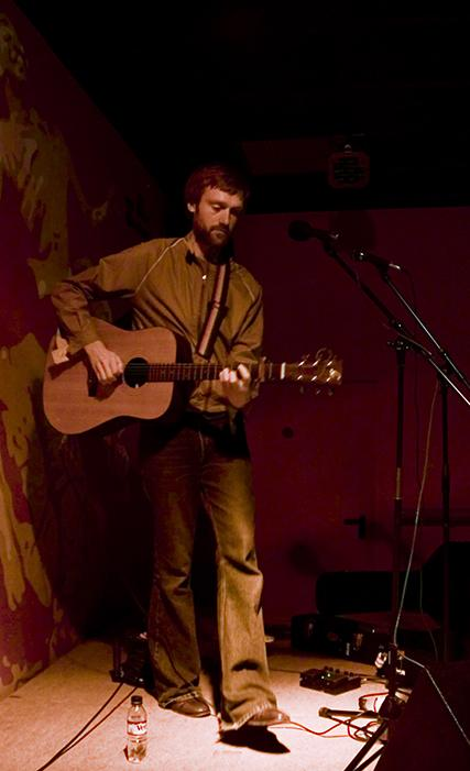 A photograph of singer David Thomas Broughton performing.